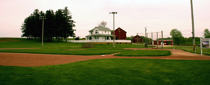 Field of Dreams - Dyersville, Iowa - May 2006.